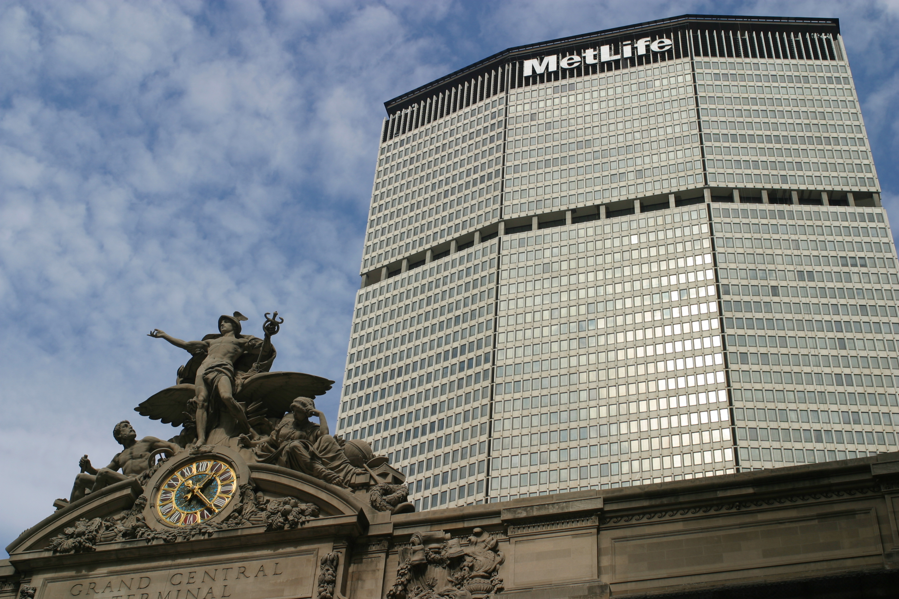 MetLife Building with Grand Central Terminal in the foreground.